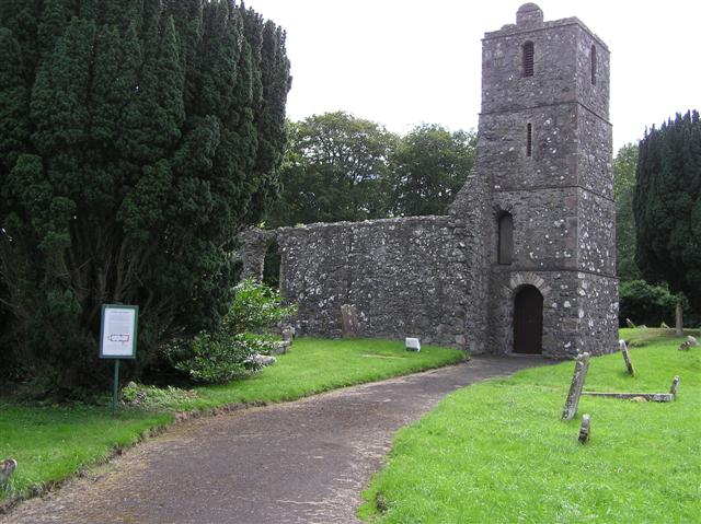 Maghera Church. This early monastery dates from the 12th century